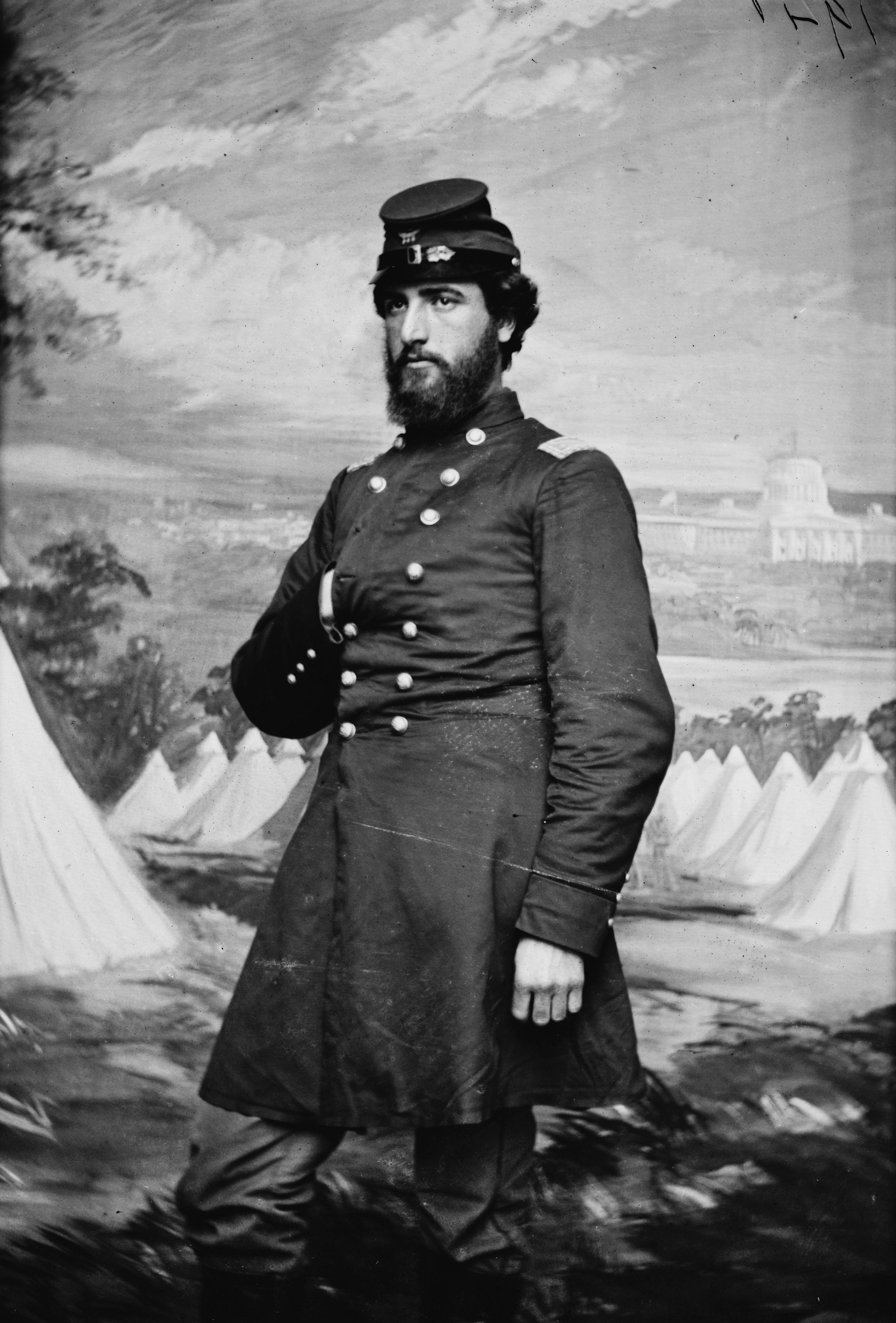 Title: Col. John G. Todd, 35th N.Y. Inf. Physical description: 1 negative